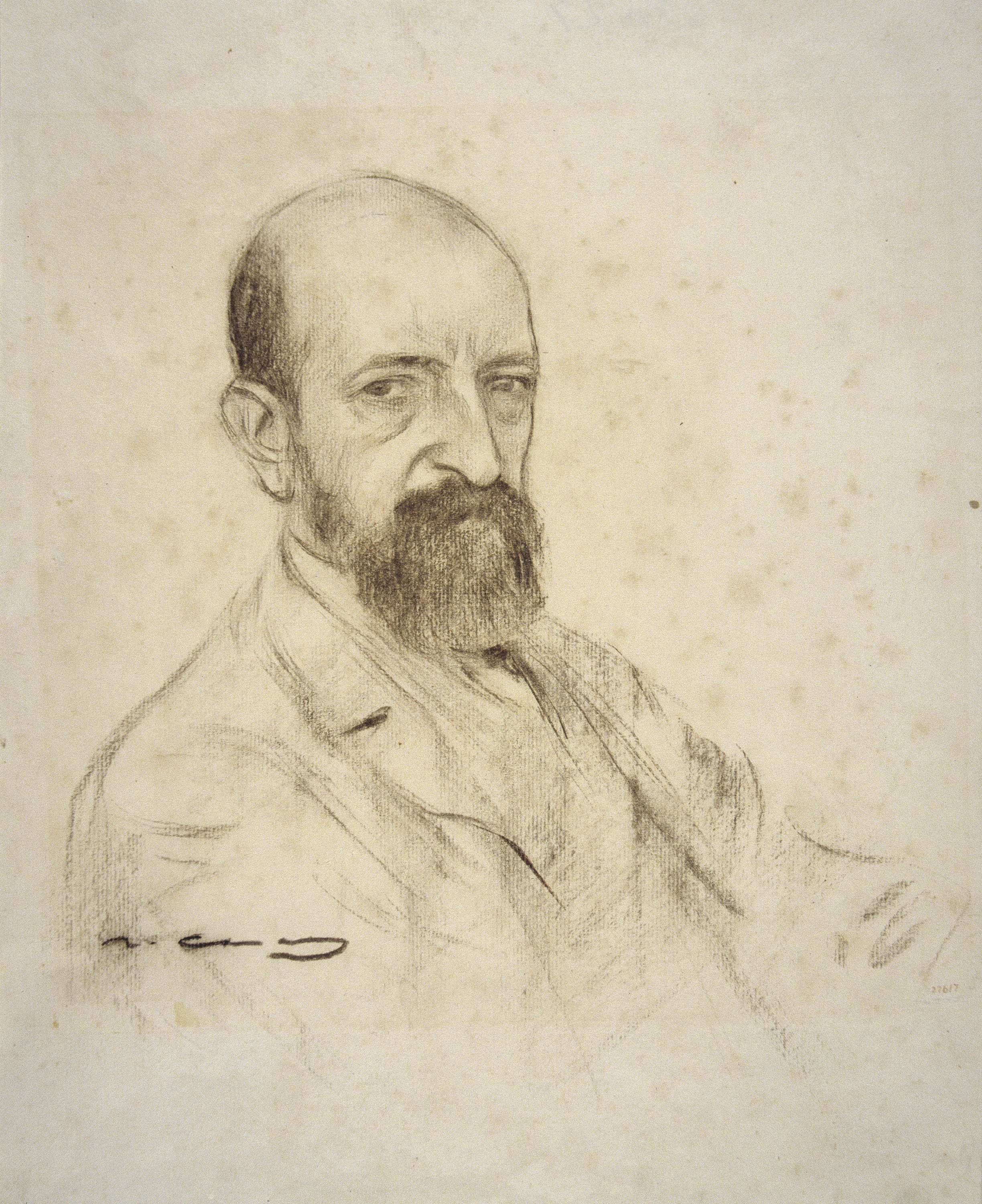 Portrait by Ramon Casas conserved at MNAC in Barcelona. Imagen 099